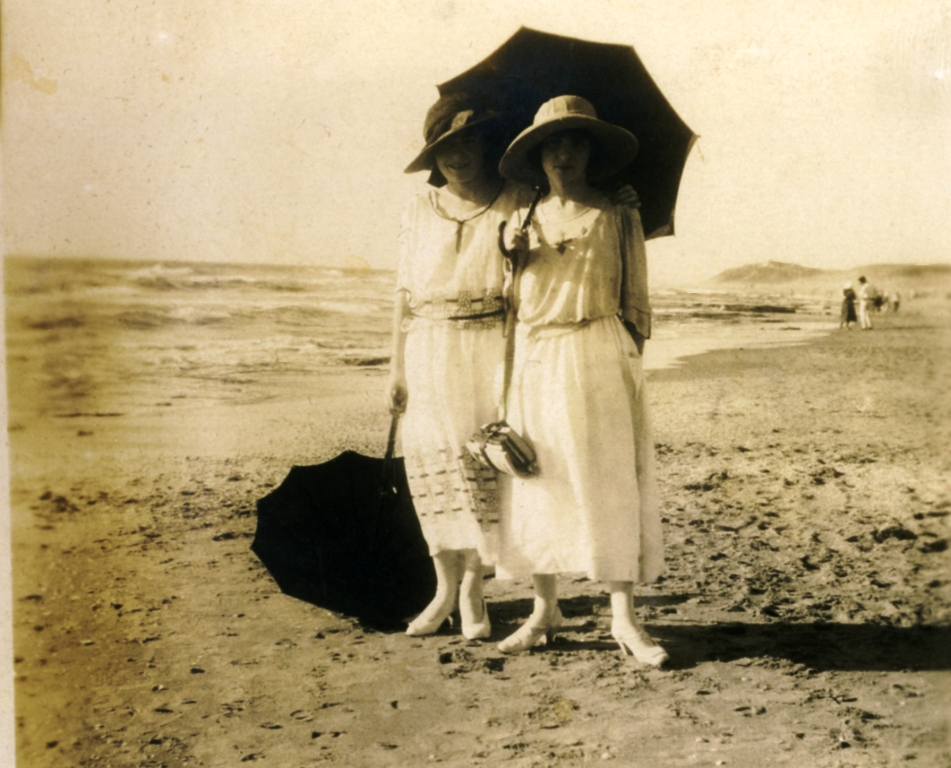 Women on the beach, Entertainment